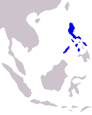 Distribution map of Crocodylus mindorensis or the Philippine crocodile. Own work.